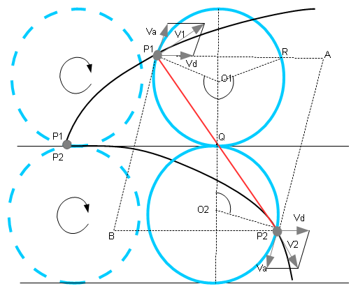 Demonstration of the properties of the evolute of a cycloid